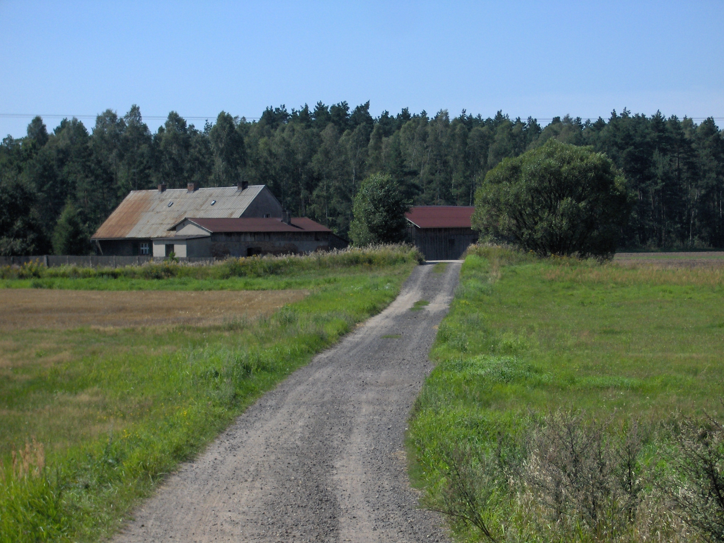 Stasiowe - panorama